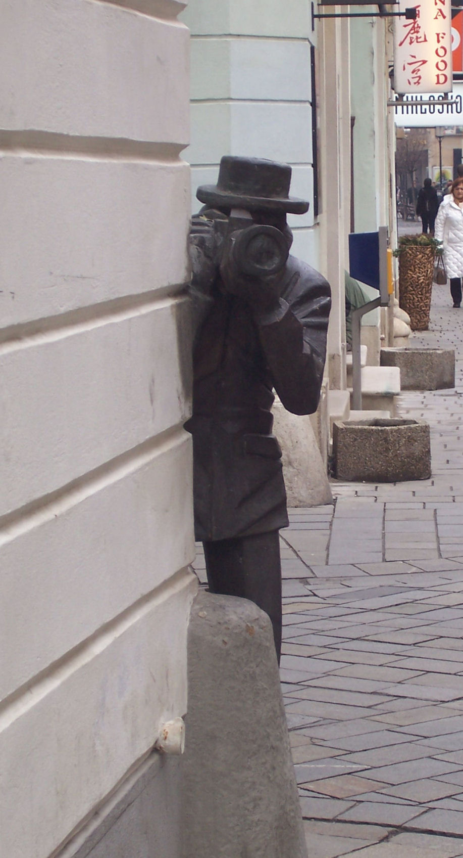 Statue of a man with camera in Bratislava's old town, looking towards the Paparazzi bar